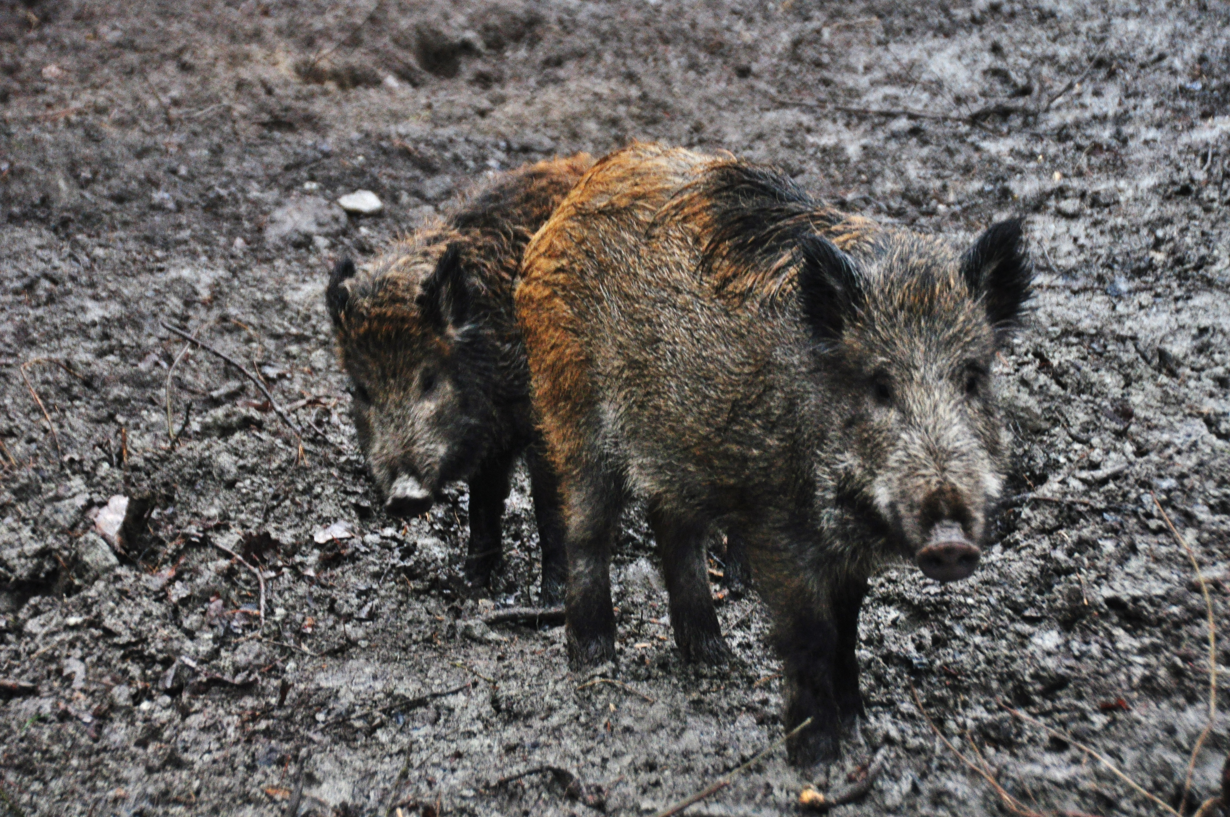 Young wild boars (Sus scrofa) in the Hunting Ranch near Dobrotvir, Kamyanka-Buzka Raion, Lviv Oblast